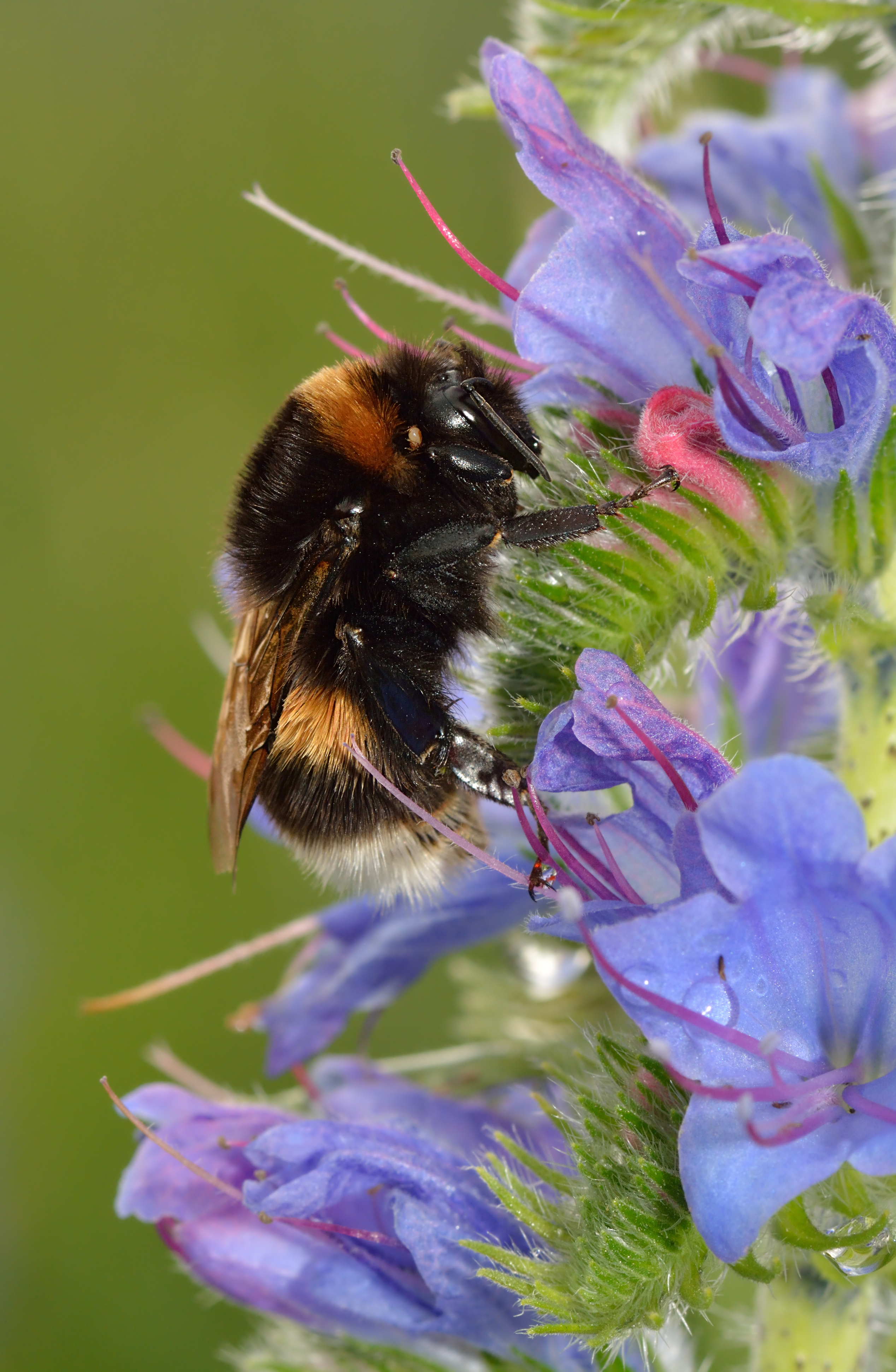 White-tailed bumblebee (Bombus lucorum) queen on the blueweed (Echium vulgare). Keila, Northwestern Estonia.